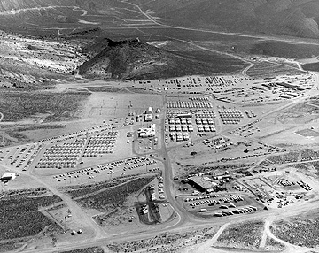 Aerial photograph of Area 12 at Nevada Test Site. Area 12 Camp (in 1965) could house 600 people overnight. Many persons working at the northwestern end of the Test Site choose to live here during the week rather than commute.